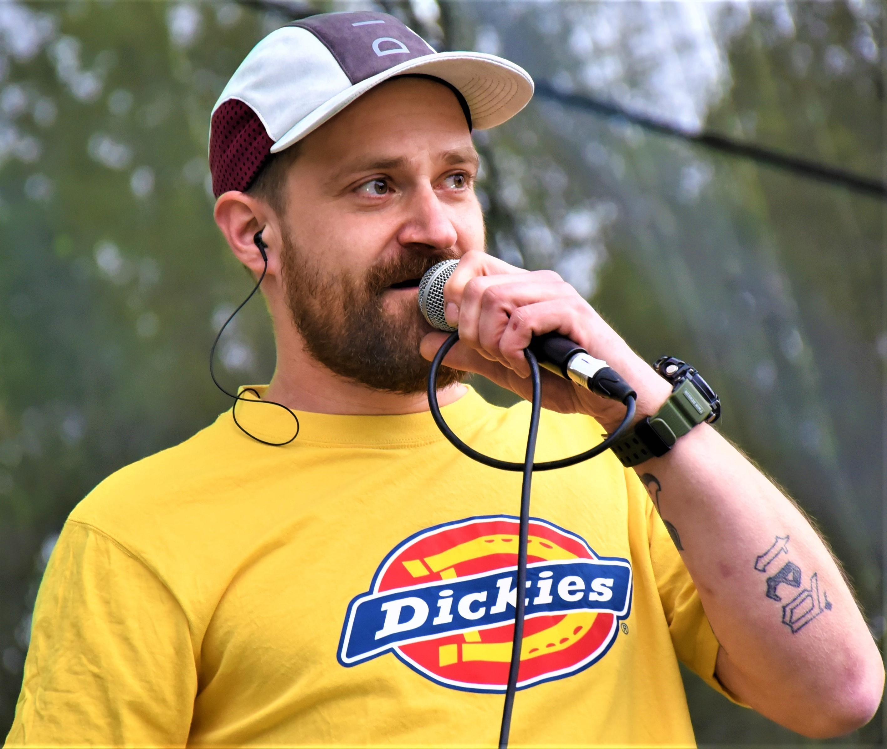 Kato, Czech rapper & DJ Аҧсшәа: Kato, český rapper a DJ